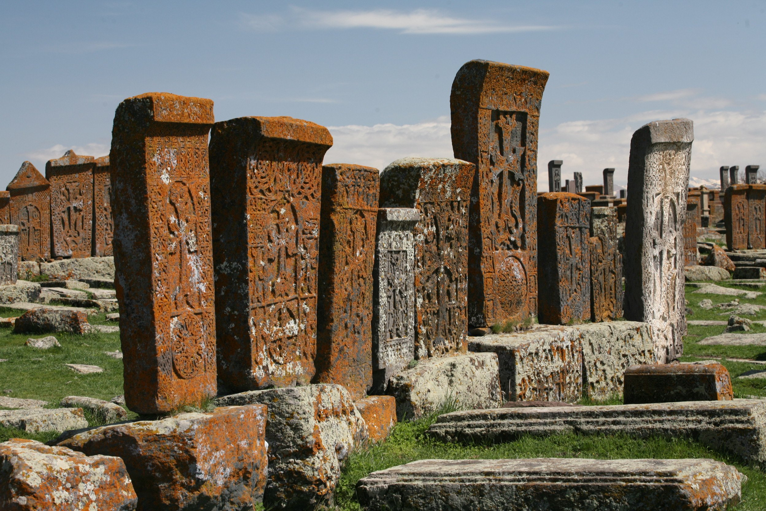 Noratus Khachkars